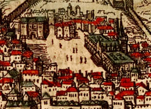 16th-century drawing of Rossio square in Lisbon, Portugal (detail).